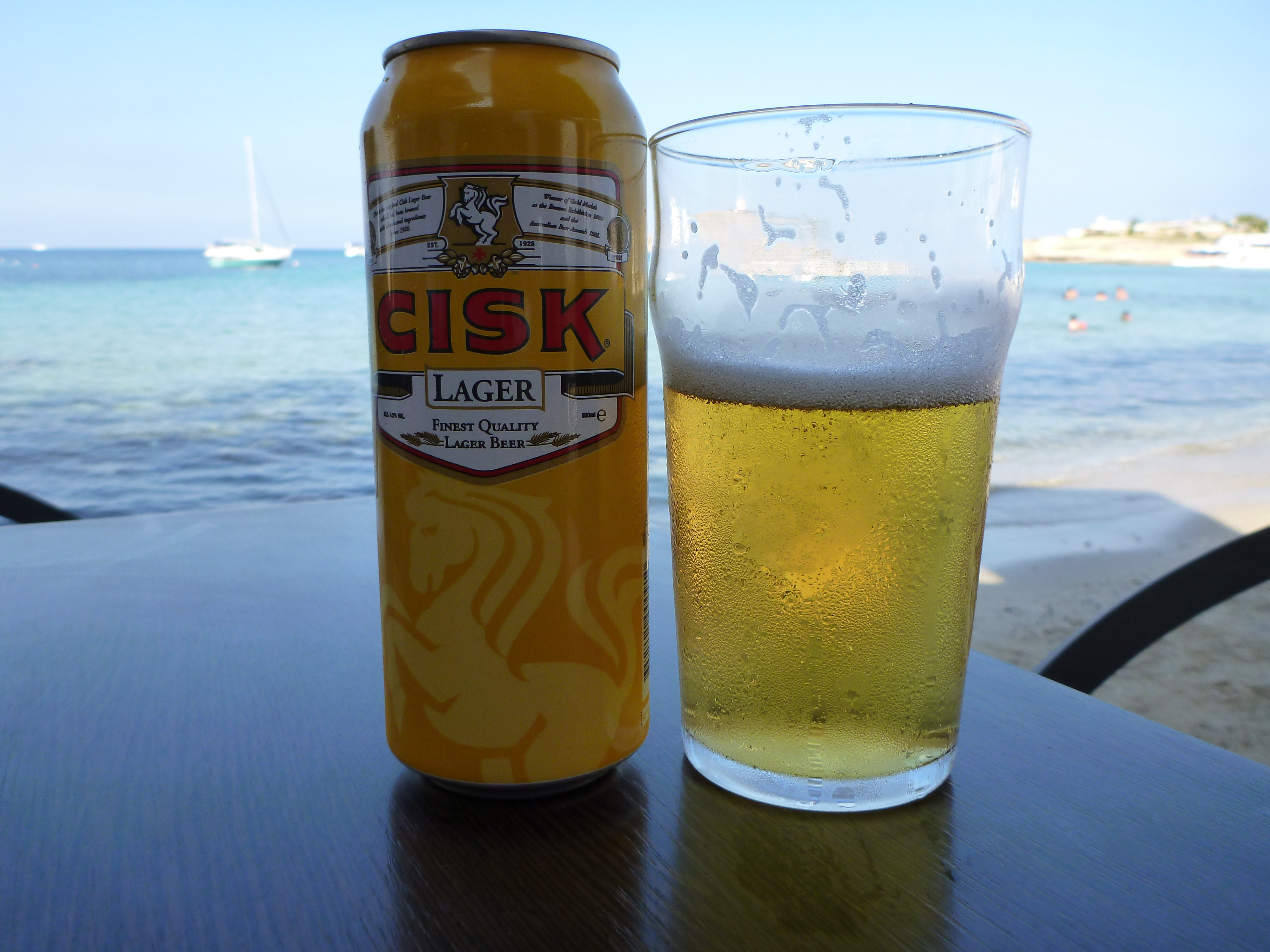 Beer Can Cisk Lager and a half full glas off beer at a beach on island Malta